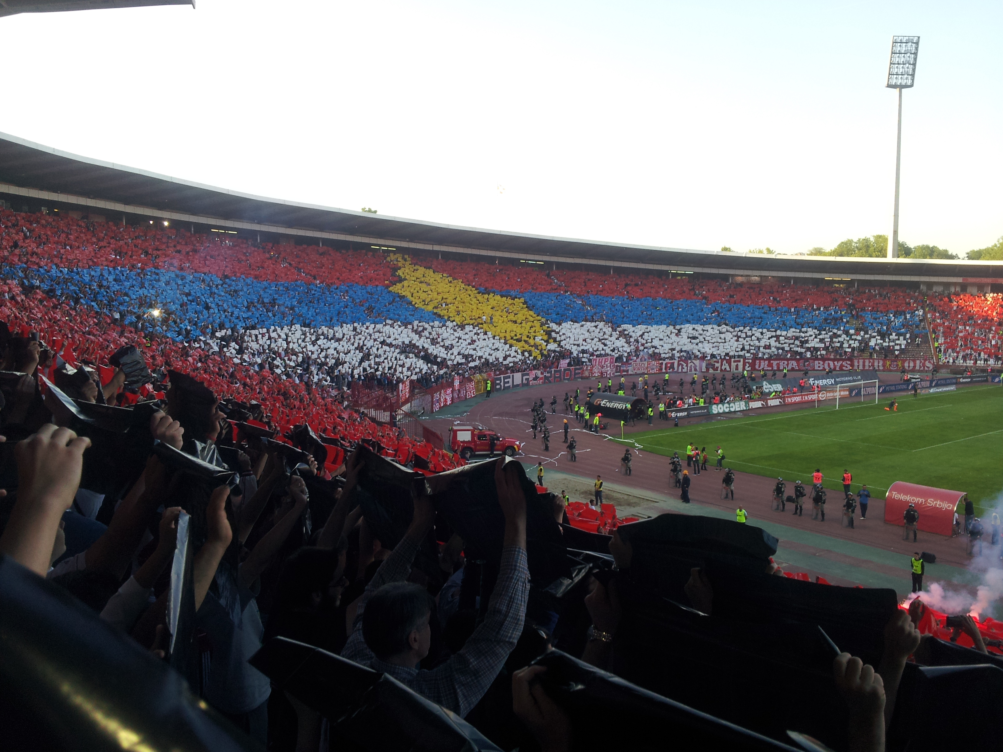 Delije againts politics in UEFA and FIFA.